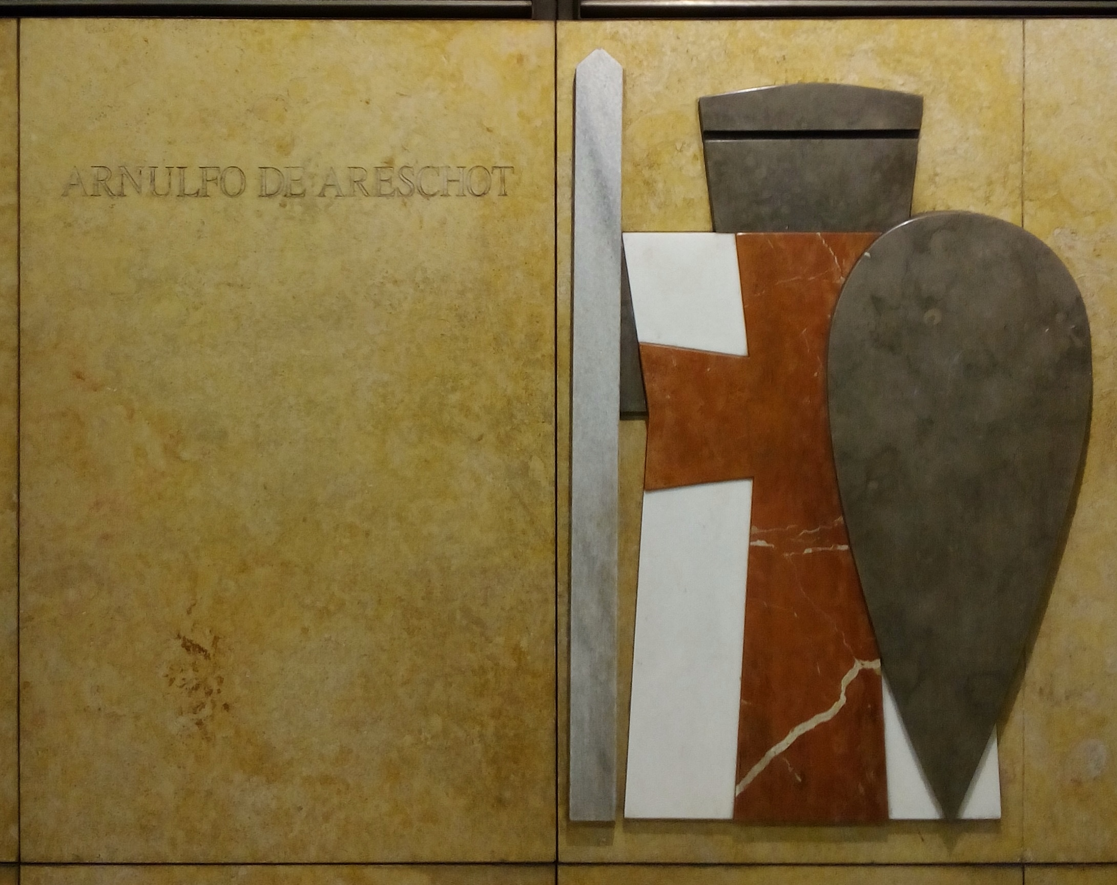 Stylized depiction of 12th-century Cruzader Arnout IV, Count of Aarschot, in the Martim Moniz Metro Station, in Lisbon, Portugal.